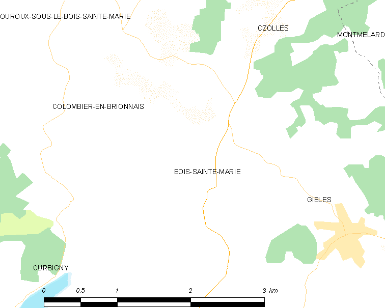 Map of French municipality